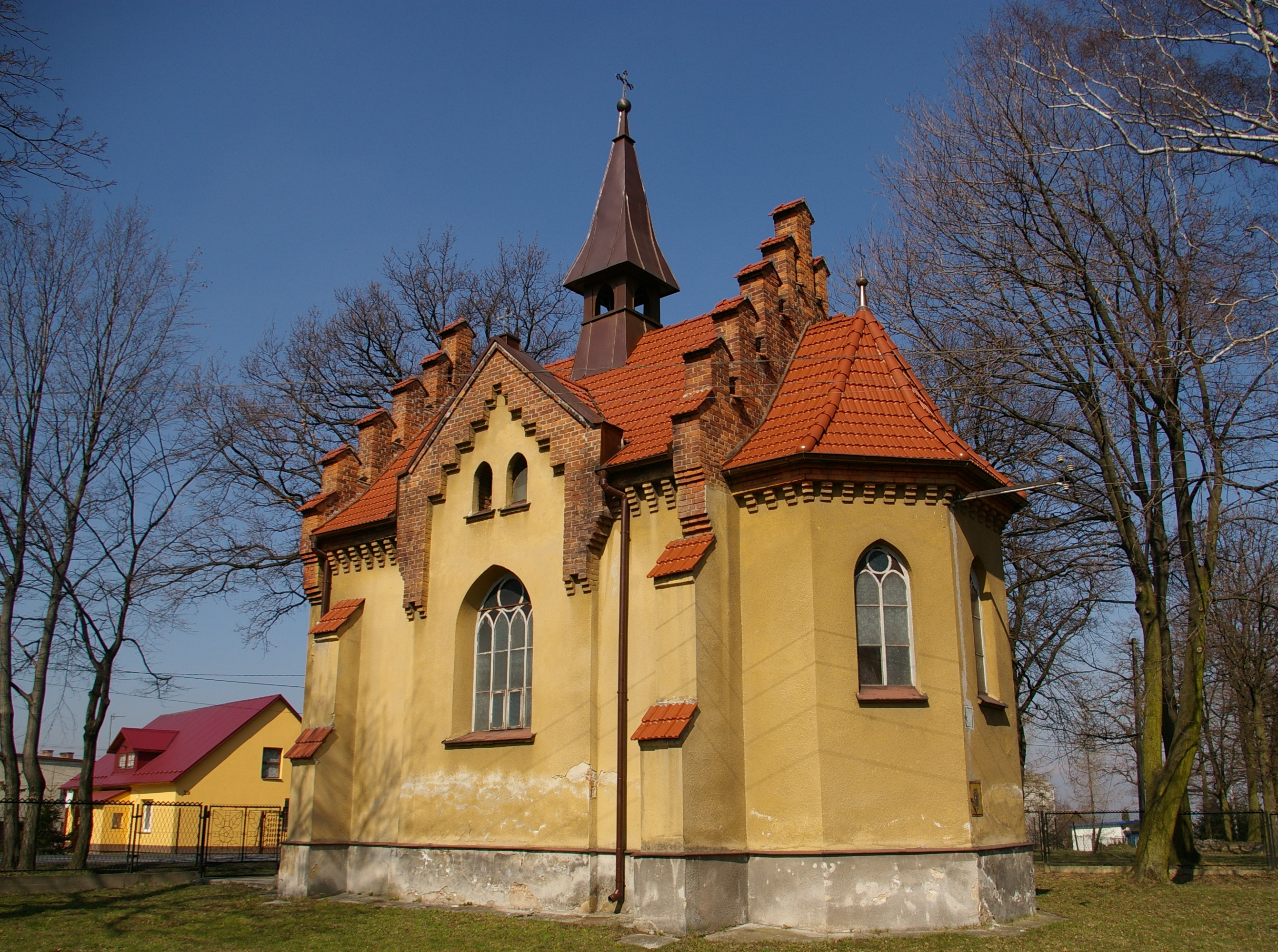 Gothic revival chapel in Chorowice, Poland